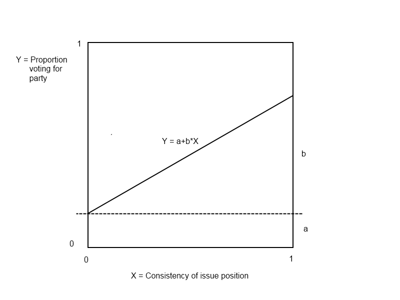 Shows the relationship between the consistency of voters' issue positions versus the proportion voting for the party in the linear model of issue voting.